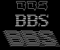 ASCII art logo of BBS This logo was created for the "Bulletin board system" Wikipedia article. I want people to experience ASCII art felt like in the BBS era. This was created with the JavE editor using FIGlet fonts red_phoenix, roman, s-relief. Then it was rendered as a gif file with Lucida Sans Typewriter font at 17 pt to create this file. ASCII Code This is the text so it can be used to regenerate the graphics as needed. __________ __________ _________ \______ \ \______ \ / _____/ | | _/ | | _/ \_____ \ | | \ | | \ / \ |______ / |______ / /_______ / \/ \/ \/ oooooooooo. oooooooooo. .oooooo..o `888' `Y8b `888' `Y8b d8P' `Y8 888 888 888 888 Y88bo. 888oooo888' 888oooo888' `"Y8888o. 888 `88b 888 `88b `"Y88b 888 .88P 888 .88P oo .d8P o888bood8P' o888bood8P' 8""88888P' __/\\\\\\\\\\\\\____/\\\\\\\\\\\\\_______/\\\\\\\\\\\___ _\/\\\/////////\\\_\/\\\/////////\\\___/\\\/////////\\\_ _\/\\\_______\/\\\_\/\\\_______\/\\\__\//\\\______\///__ _\/\\\\\\\\\\\\\\__\/\\\\\\\\\\\\\\____\////\\\_________ _\/\\\/////////\\\_\/\\\/////////\\\______\////\\\______ _\/\\\_______\/\\\_\/\\\_______\/\\\_________\////\\\___ _\/\\\_______\/\\\_\/\\\_______\/\\\__/\\\______\//\\\__ _\/\\\\\\\\\\\\\/__\/\\\\\\\\\\\\\/__\///\\\\\\\\\\\/___ _\/////////////____\/////////////______\///////////_____